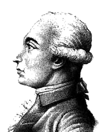 Louis Claude de Saint-Martin